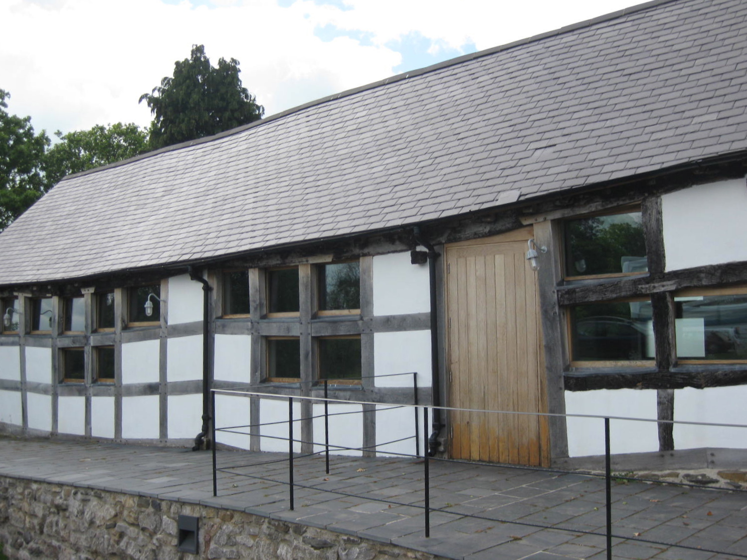 Cruck Barn at Ty-coch, Llangyhafal, Denbighshire. Exterior framing. ExteriorDendrochronologically dated to 1430.